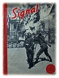 War Reporters (first cover)